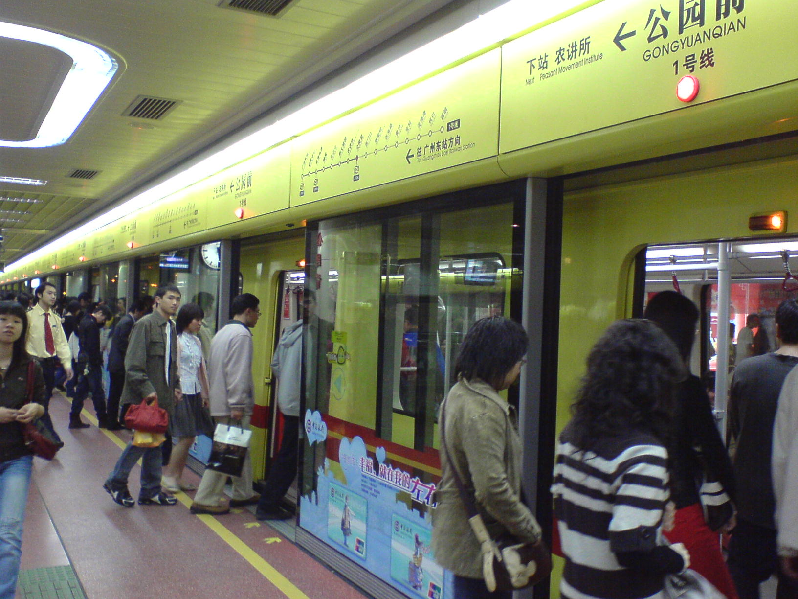 Gongyuanqian Station of Guangzhou Metro in Guangzhou, Guangdong, China